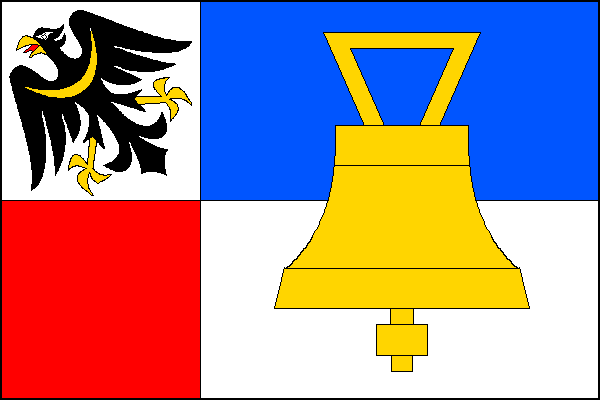 Municipal flag of Bašť , District Praha-východ, Czech Republic